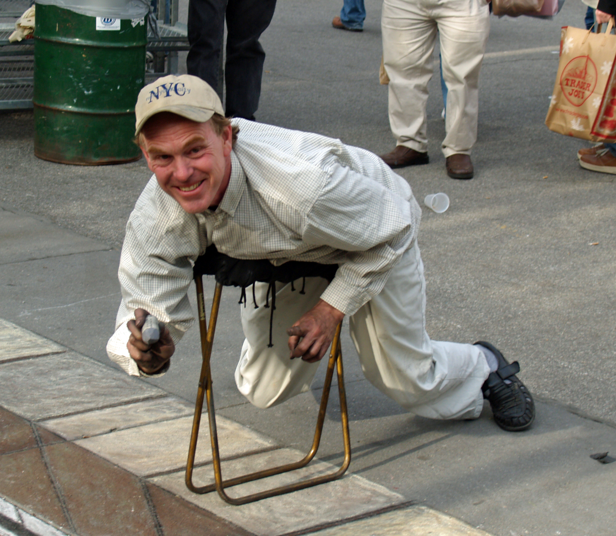 Julian Beever in New York's Union Square creating a Mountain Dew advertisement.